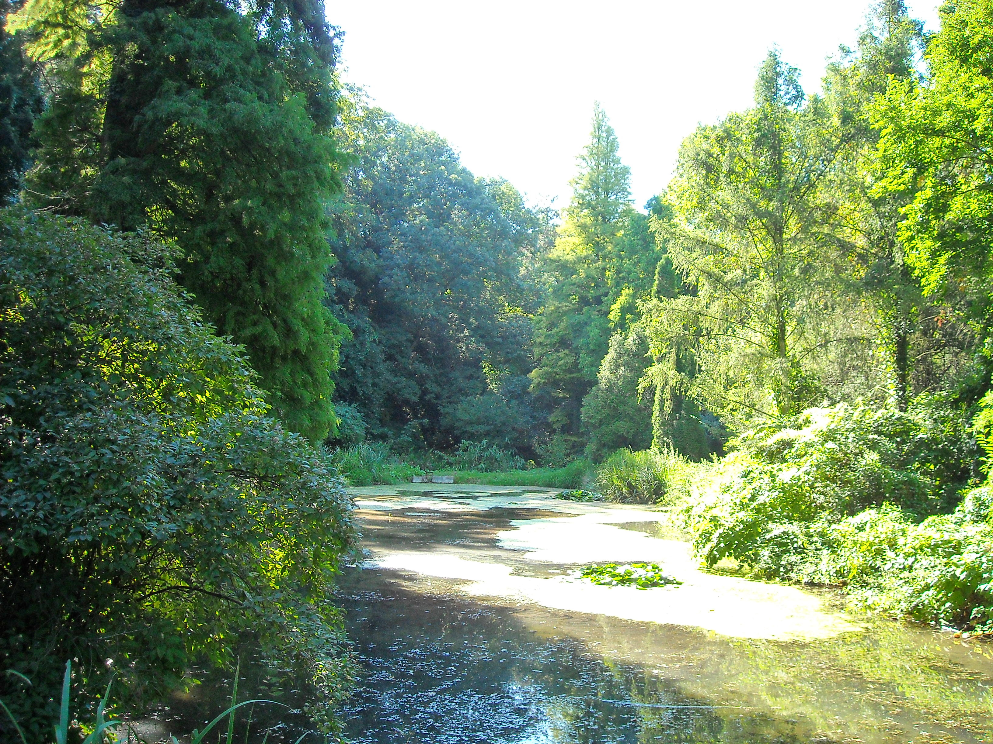 Simeria (Biscaria) Arboretum, Romania